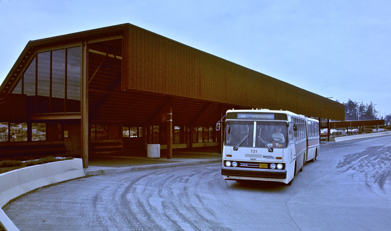 TriMet's Barbur Blvd. Transit Center (in southwest Portland, Oregon; built in 1977), with bus 721 leaving, on its way to Sherwood on route 44-Sherwood (redesignated 5-Barbur Blvd. in 1984, and 12 in 1986). Bus 721 was a 1981 Crown-Ikarus 286 articulated bus, and the photo was taken on the 7th day of revenue service for this type of bus on the TriMet system. TriMet's last Crown-Ikarus articulated buses were retired 17 years later, in March 1999.